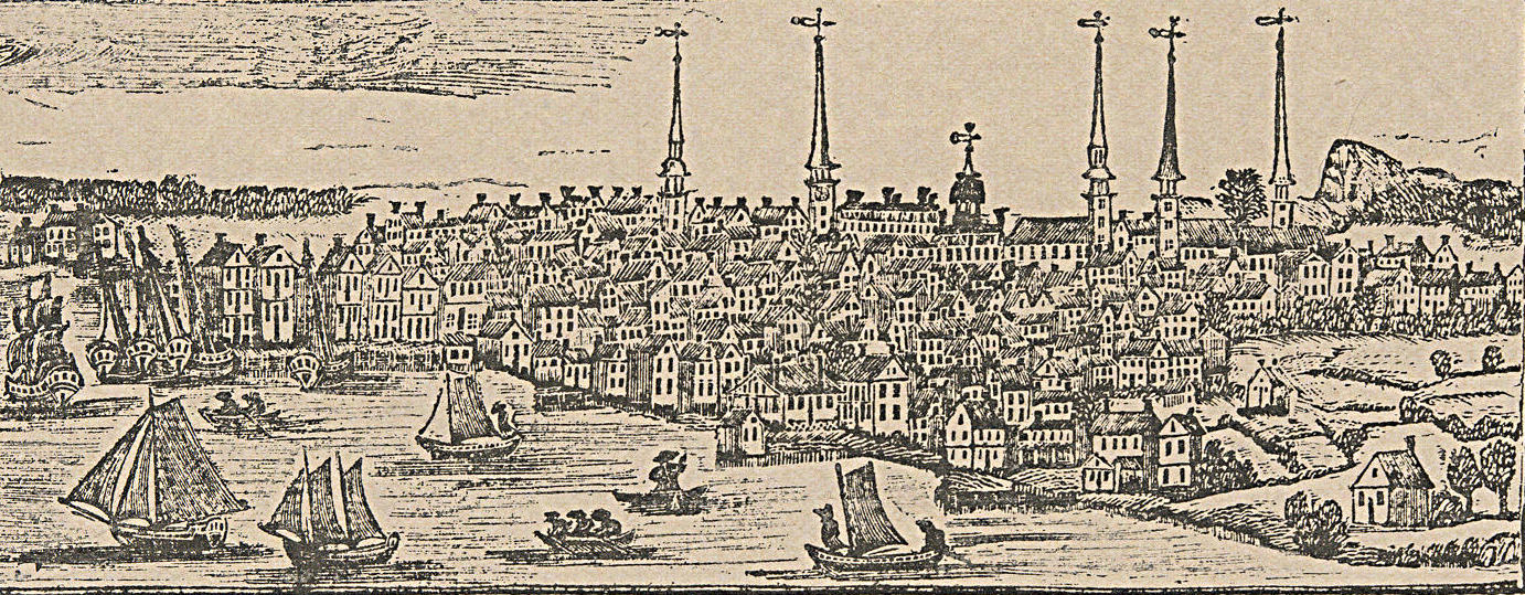 View of New Haven in 1786, published as a reproduction of the original woodcut by Daniel Bowen